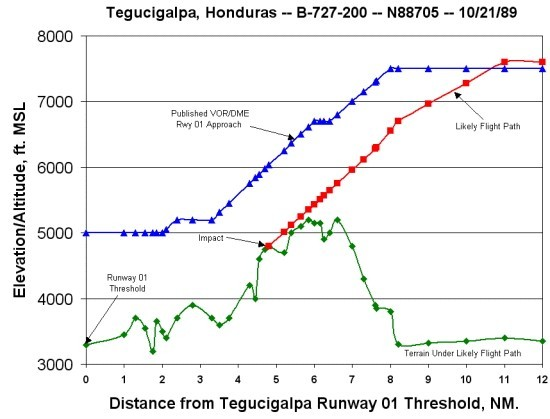 Flight 414 impacted a mountain known as Cerro de Hula at the 4800 ft MSL elevation, approximately 800 ft below the summit, 4.8 NM from the Tegucigalpa runway 01 threshold.